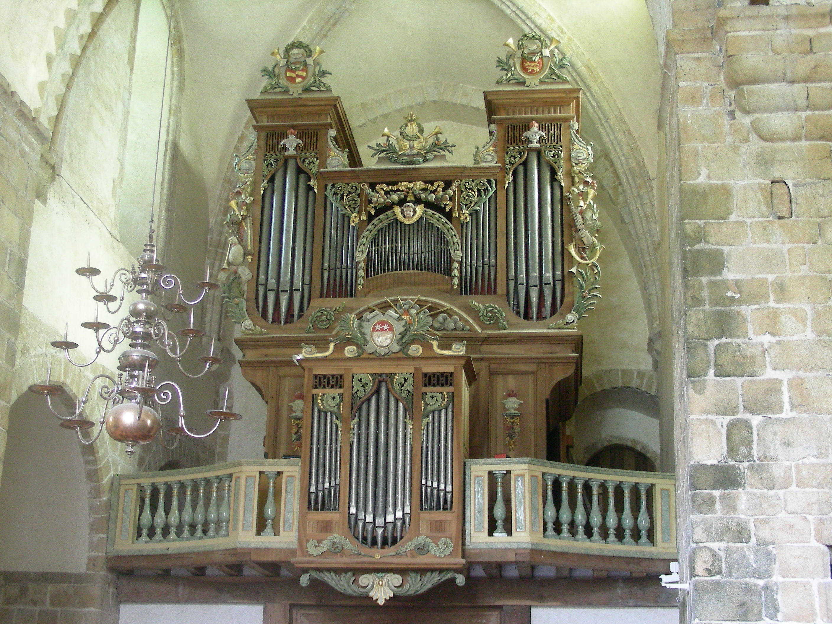 Abbey of Saínte Trinité de La Lucerne, the Church, interior, organ